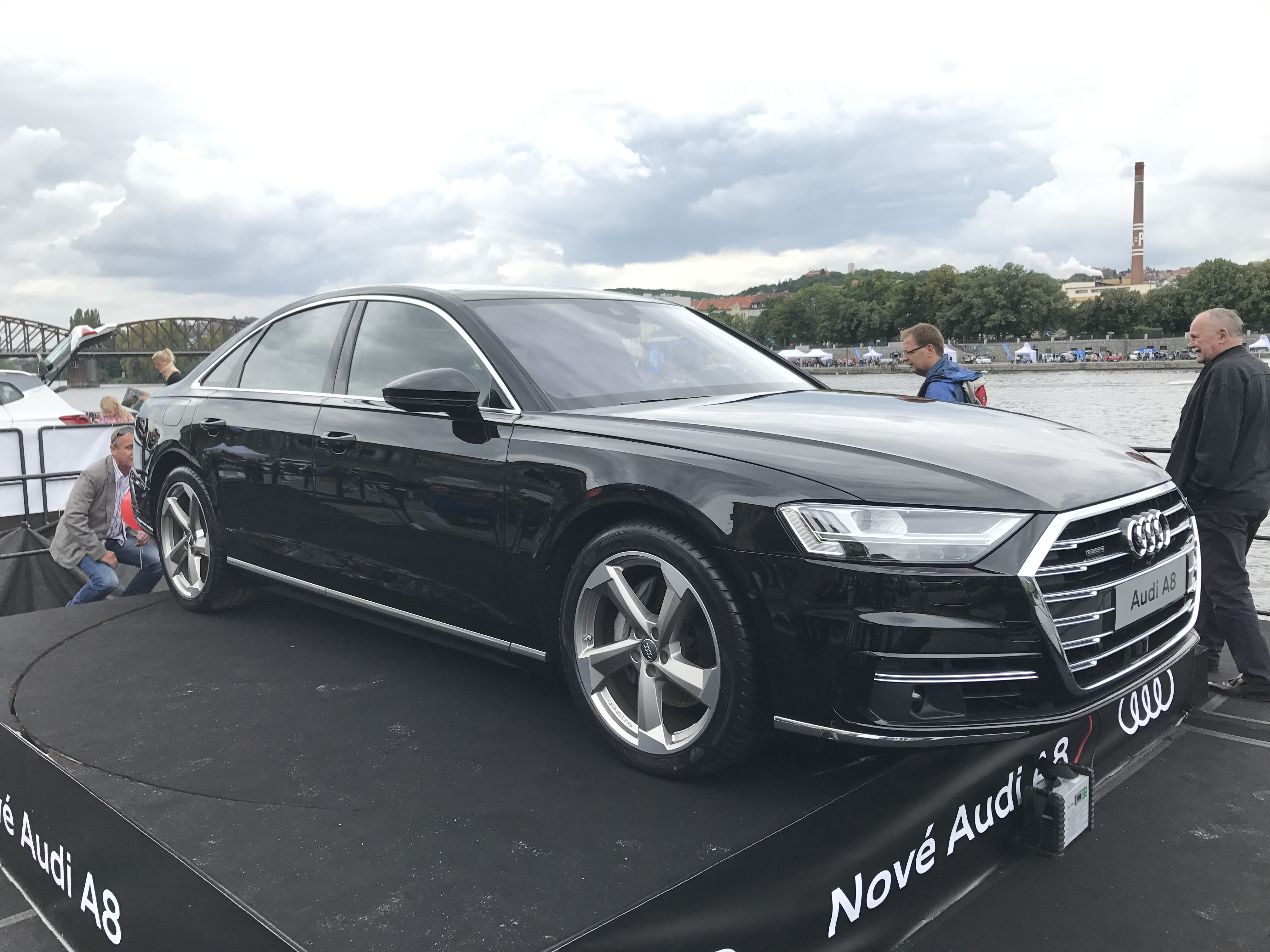 Audi A8 D5 in Auta na náplavce in Prague, Czech Republic.